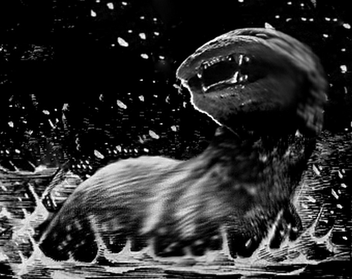 Artist Impression by Eye Witness Sean Corcoran. This creature was encountered on Omey Island, Connemara, Co. Galway, Ireland.